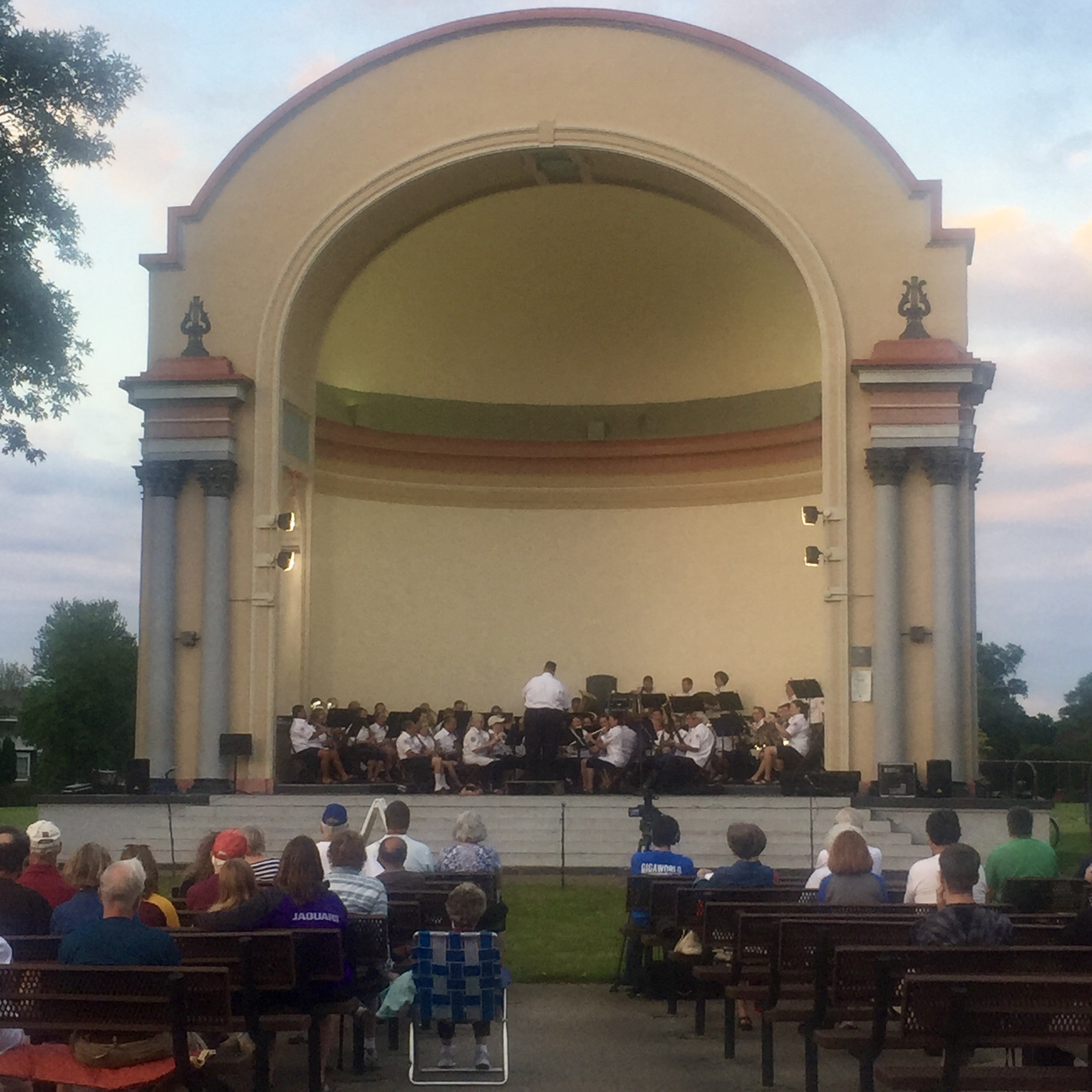 Bandshell located in Winona, Minn. Construction completed 1924.